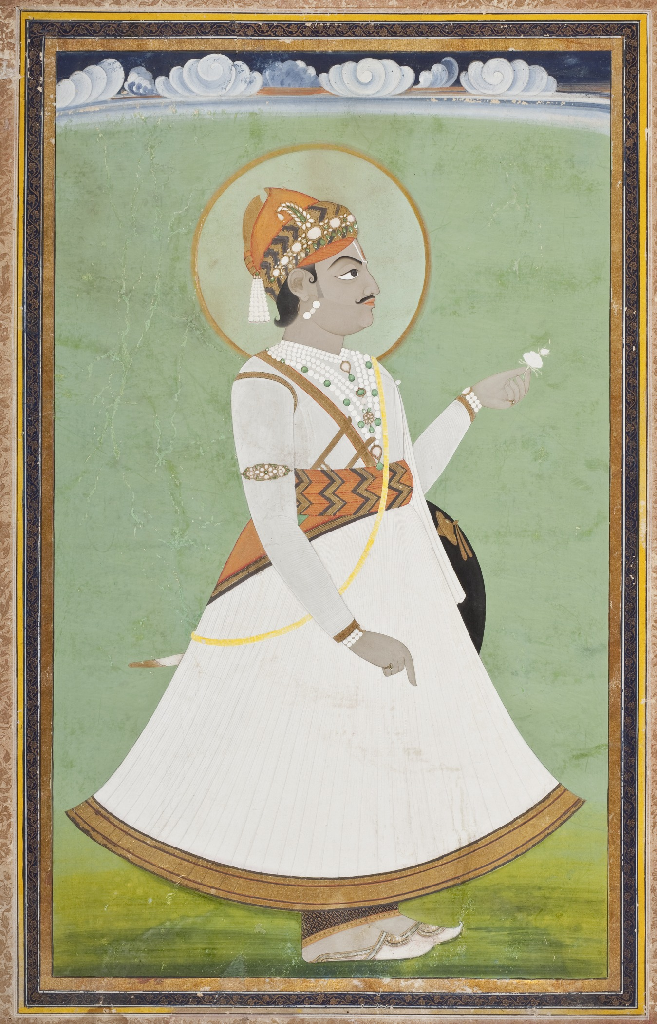 India, Rajasthan, Jaipur, circa 1780 Drawings; watercolors Opaque watercolor and gold on paper Sheet: 21 3/4 x 15 in. (55.25 x 38.1 cm); Image: 19 3/8 x 11 1/2 in. (49.21 x 29.21 cm) Gift of Marilyn Walter Grounds (M.81.272.4) South and Southeast Asian Art